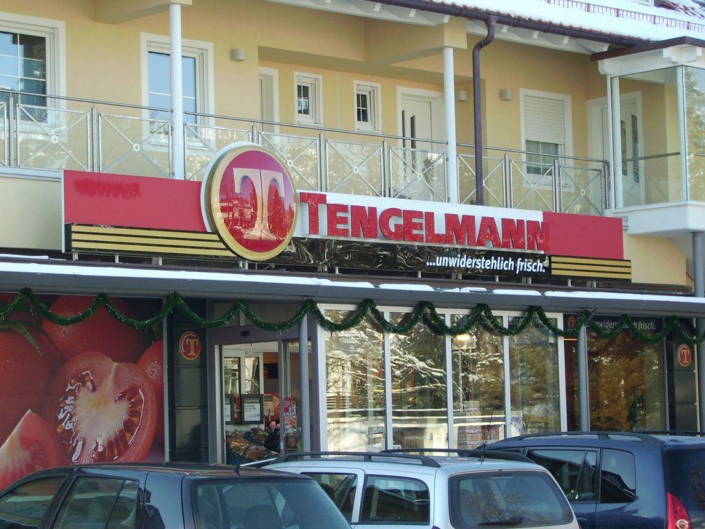 Tengelmann store in Ottobrunn, Germany